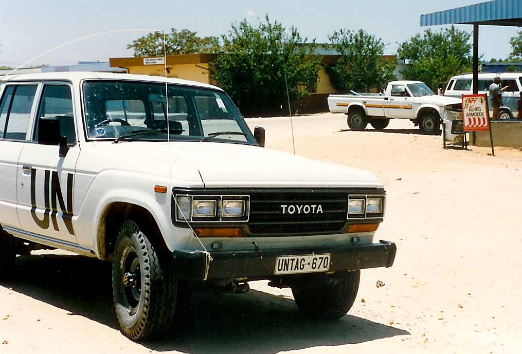 1989: Election monitoring by UN FDFL in Namibia